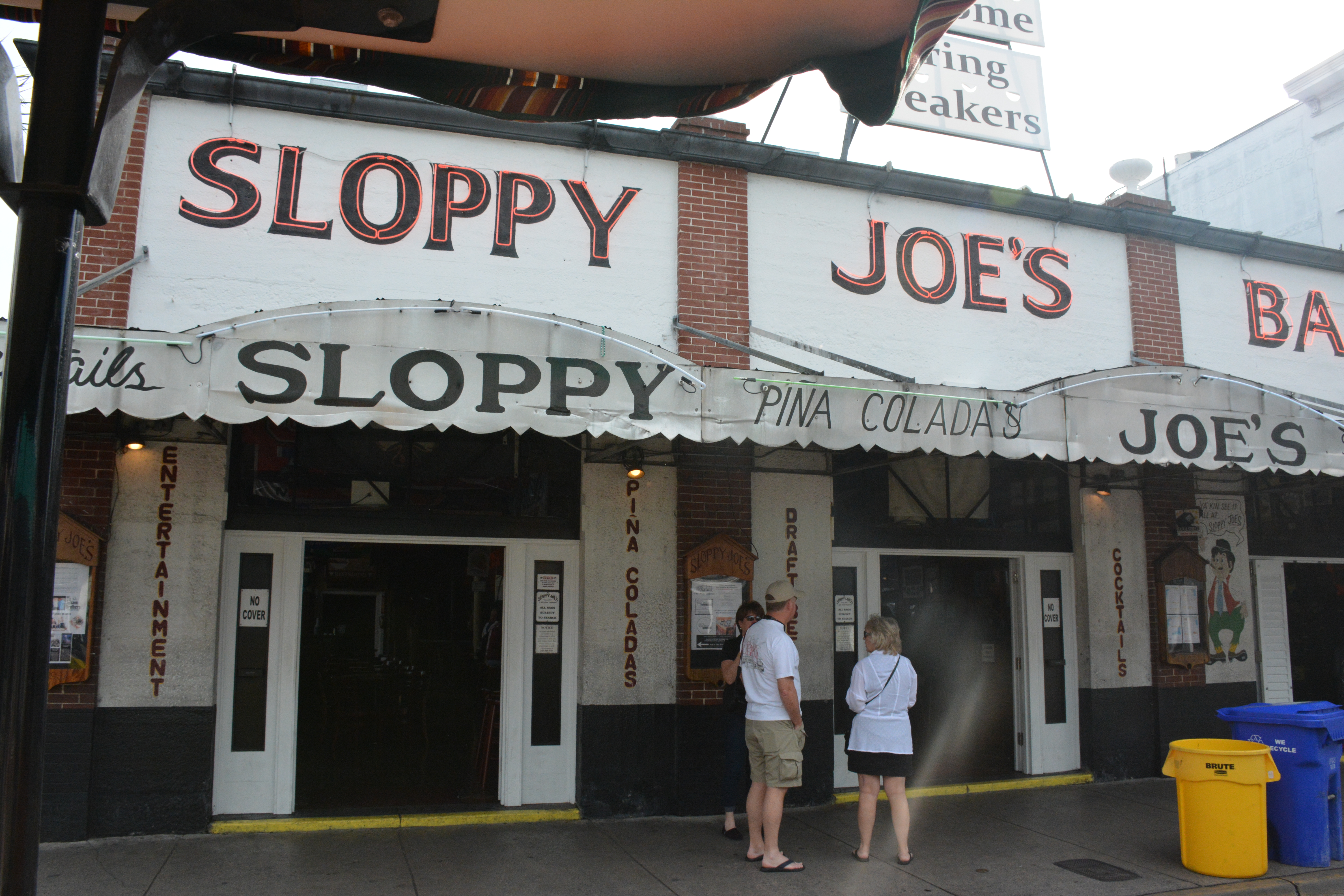 Sloppy Joe's Bar, Key West, Florida, U.S.